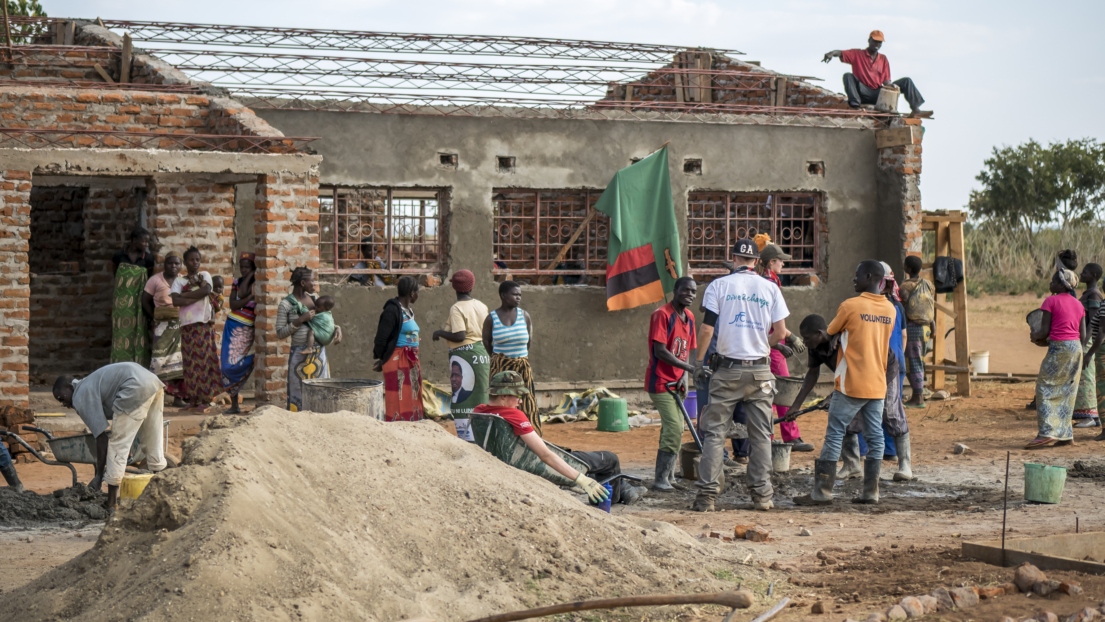 Dutch volunteers and Zambians working together on constructing a classroom block in Matipa, Zambia